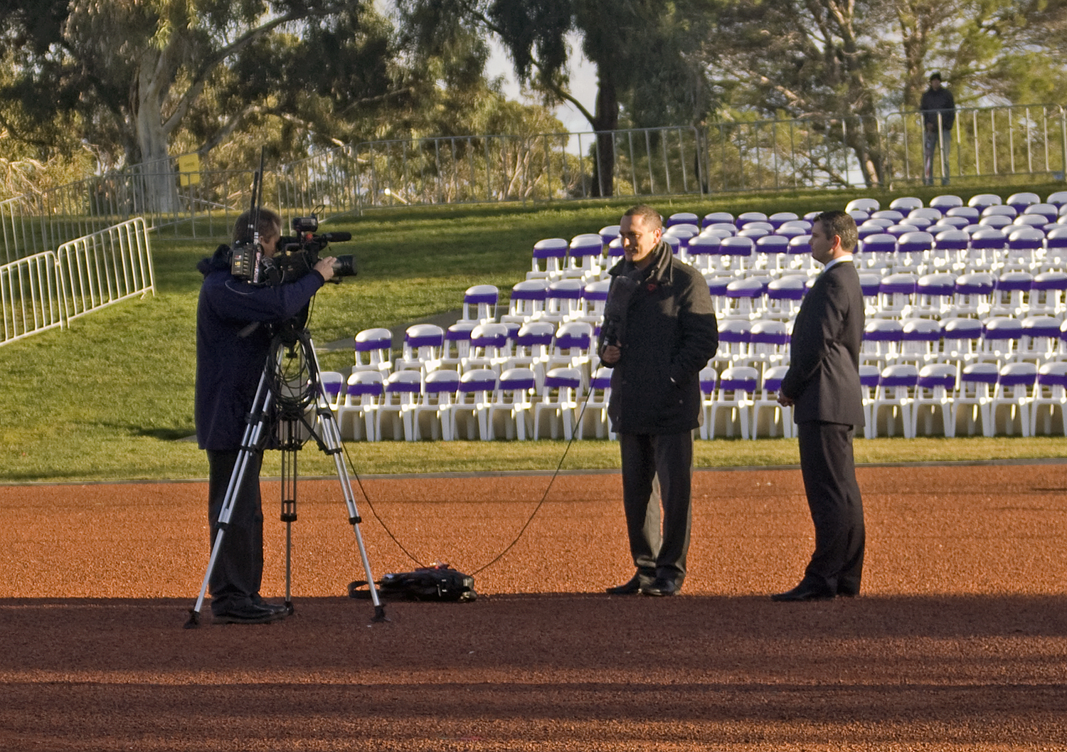 Sky News Australia reporter, Kieran Gilbert, reporting at the AWM on Anzac Day.